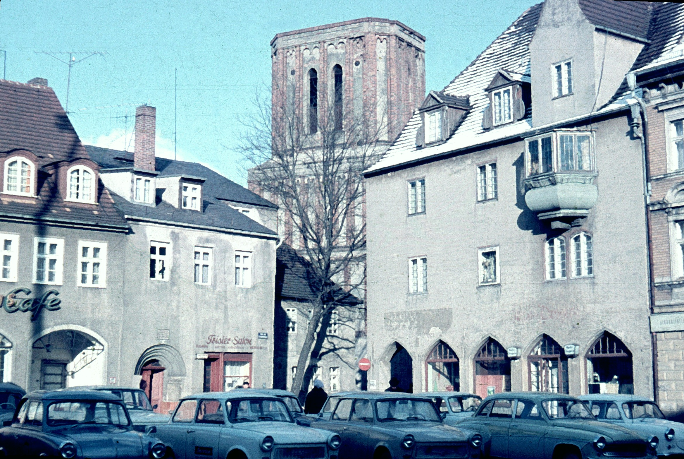 Senftenberg, view from the town square to the chuch St. Peter and Paul